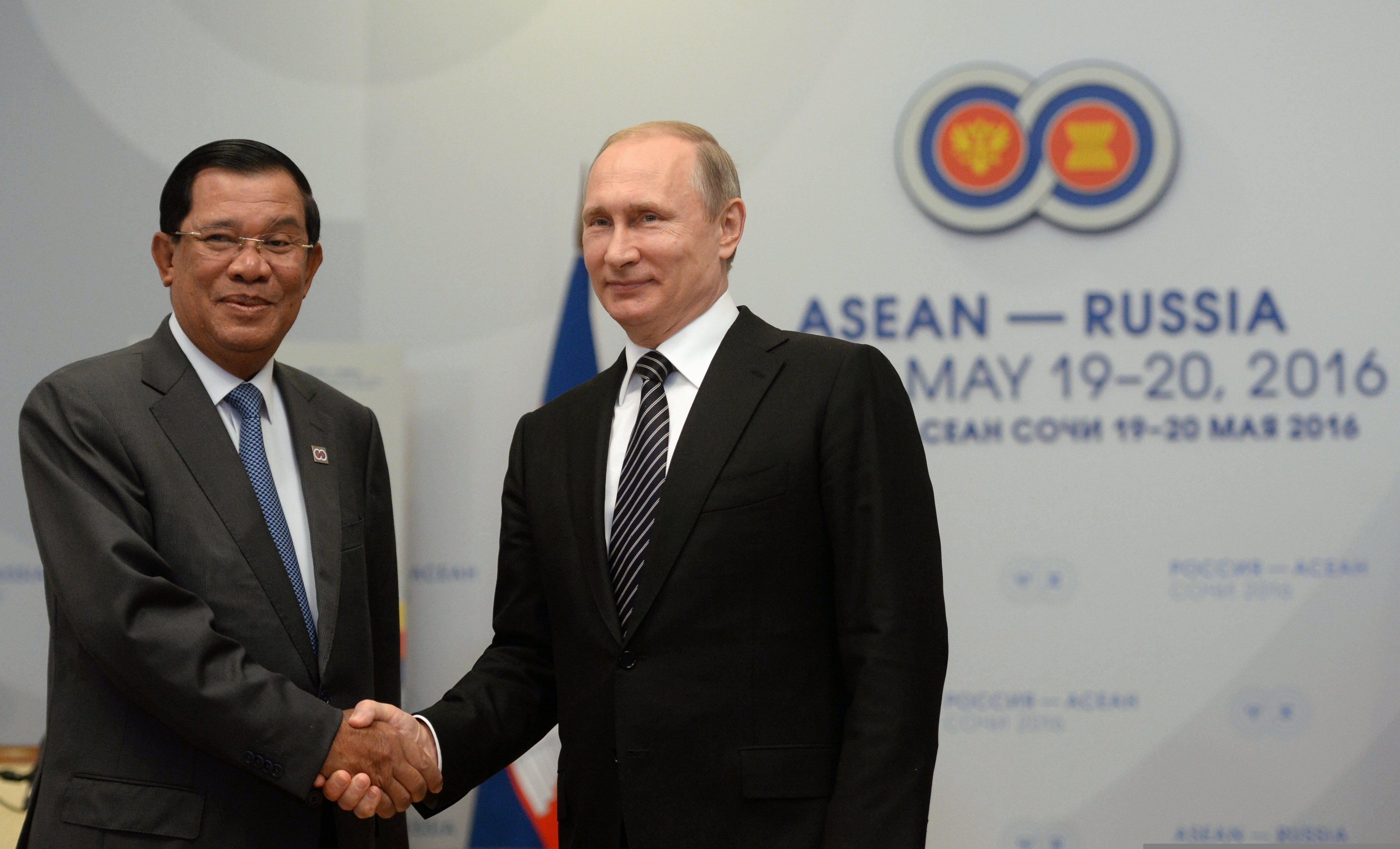 Vladimir Putin met with Prime Minister of Cambodia Hun Sen on the sidelines of the Russia-ASEAN summit.